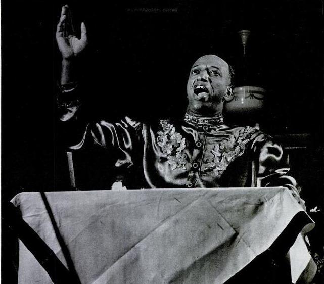 Prophet Francis Marion Jones